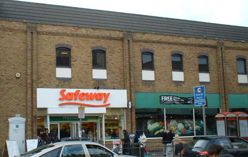 safeways 264-276 Walworth Road, Southwark, London SE17 2TE. Images on Google maps in 2012 show this shop run by Somerfield. taken by C Ford 15/11/03